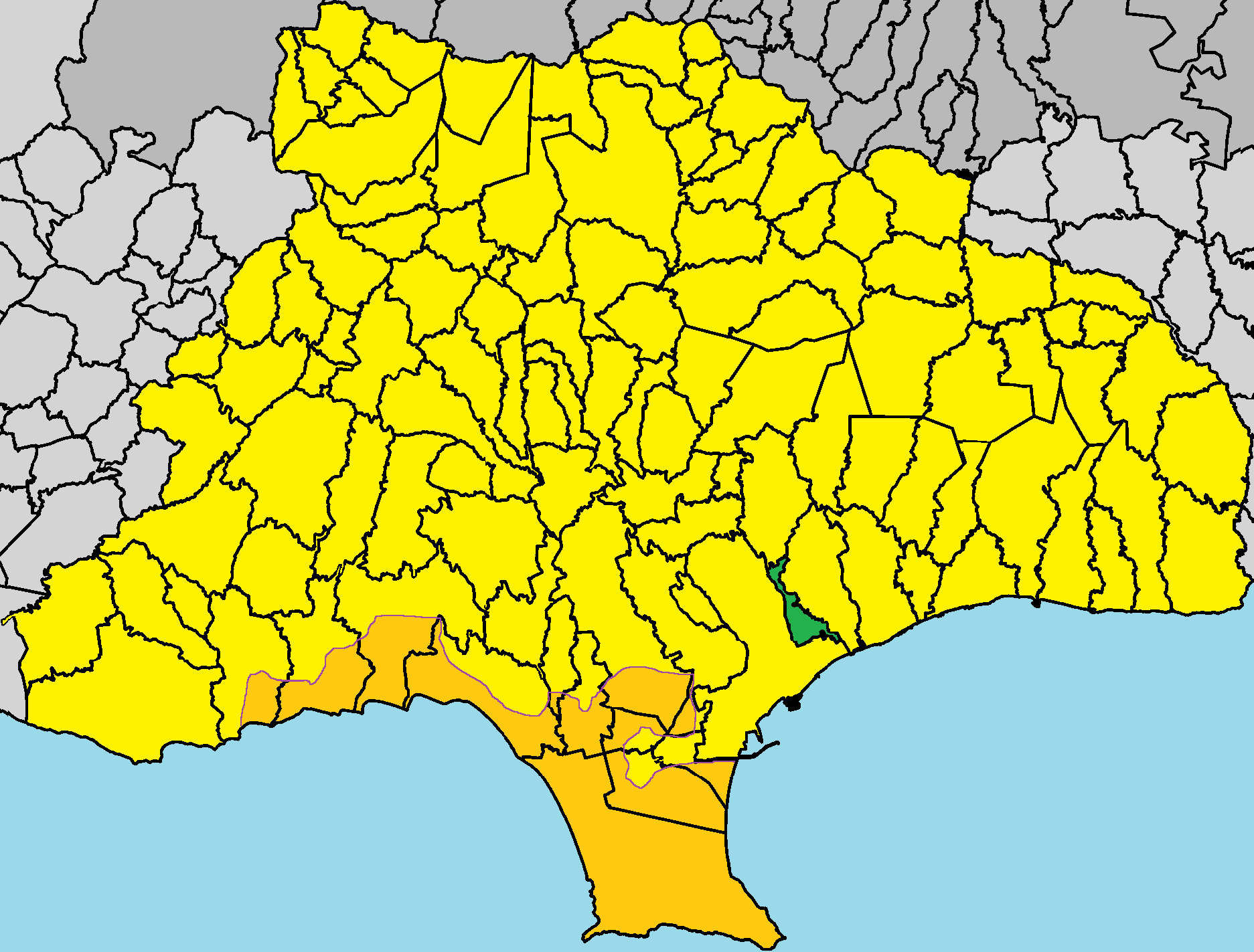 Mesa Geitonia in Limassol District.